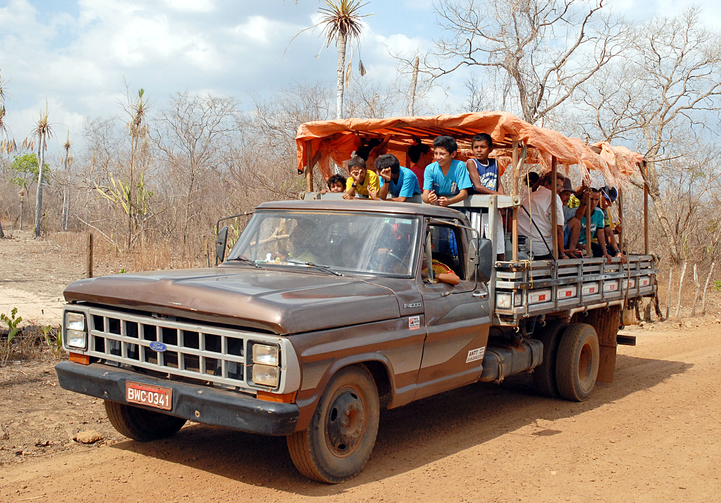 Ford F-4000 truck in Brazil.